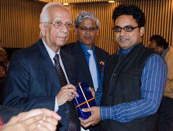 WB Governor Keshari Nath Tripathi with director Mujibar Rahaman